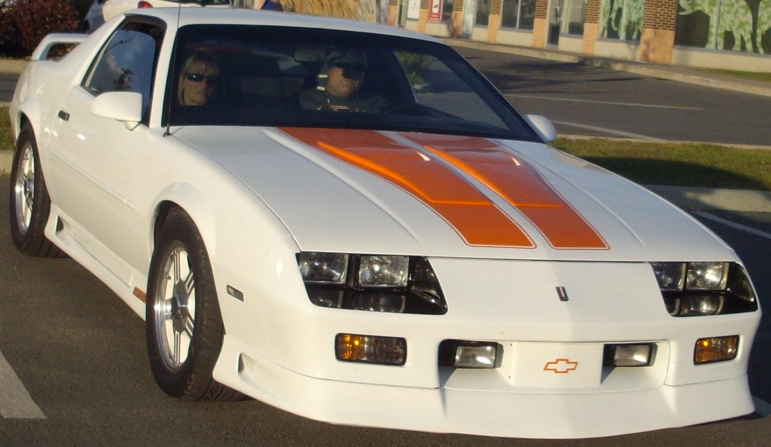 Chevrolet Camaro photographed in Laval, Quebec, Canada at Les chauds vendredis.